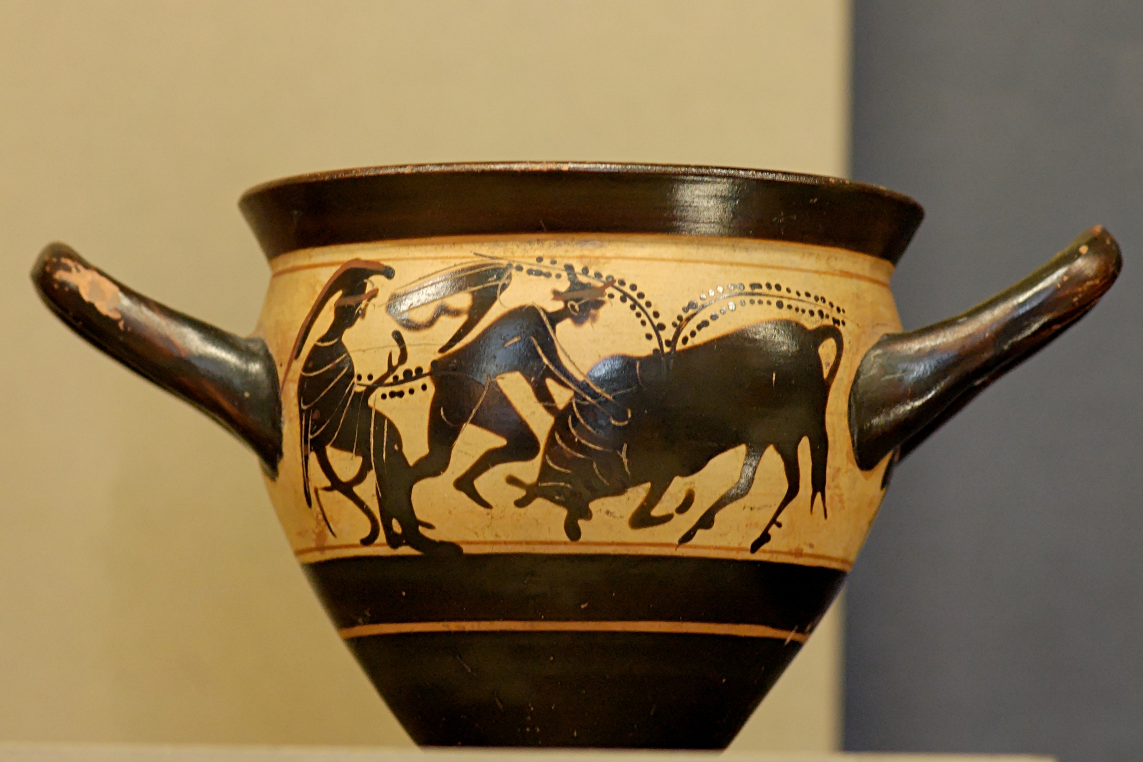 Herakles and the Cretan Bull. Attic black-figure mastos, ca. 500–475 BC. Found in Athens.